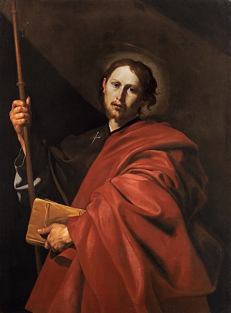 James the Greater